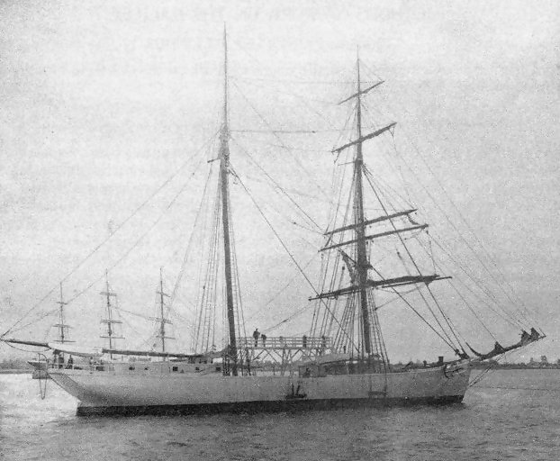 View of the brigantine Galilee on her first cruise as a magnetic observatory, chartered to the Department of Terrestrial Magnetism, Carnegie Institution, in 1905